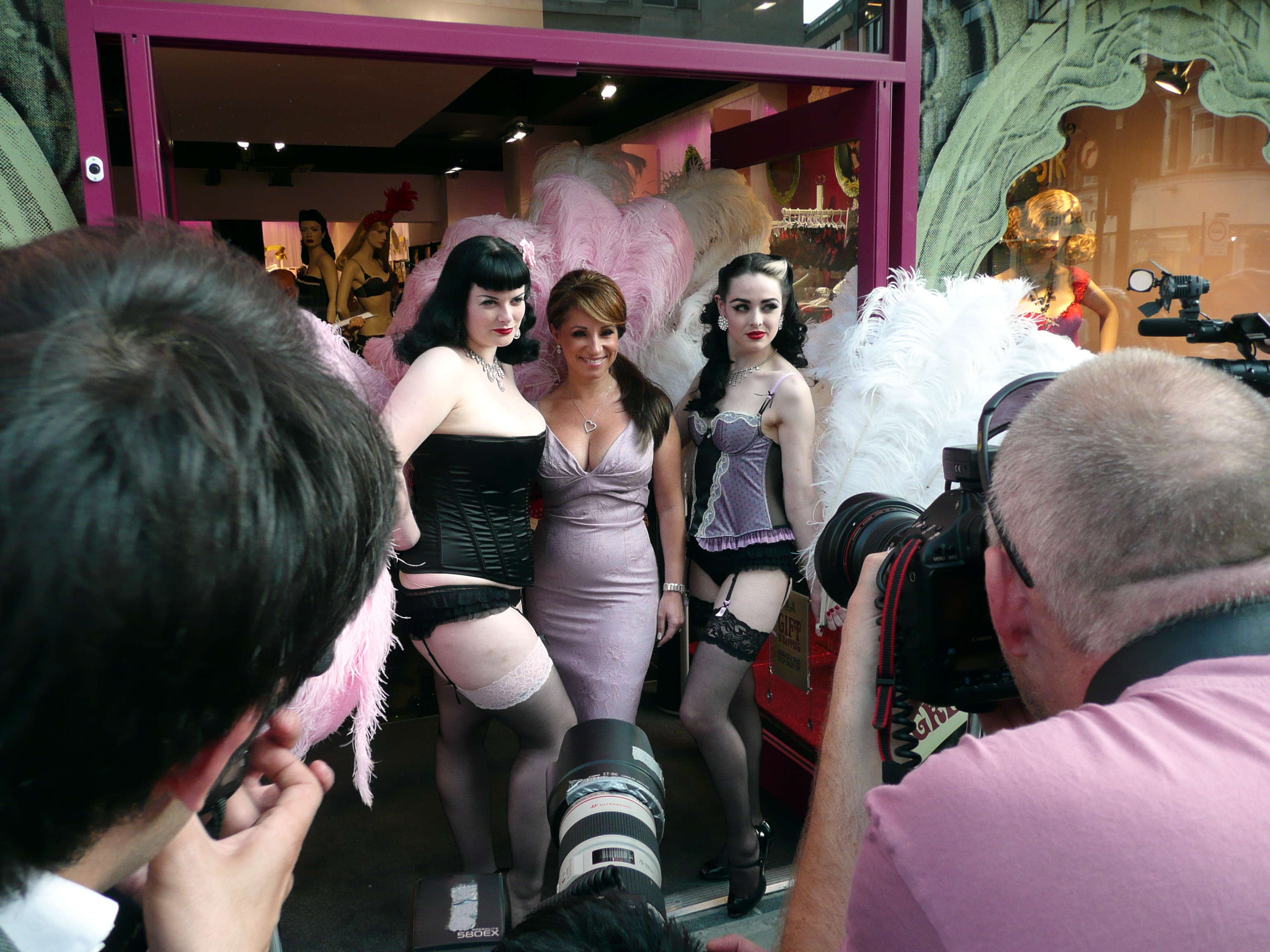 Jacqueline Gold (center) at a photo shoot on 9 June 2008, outside the Ann Summers shop on New Oxford Street, London, England.